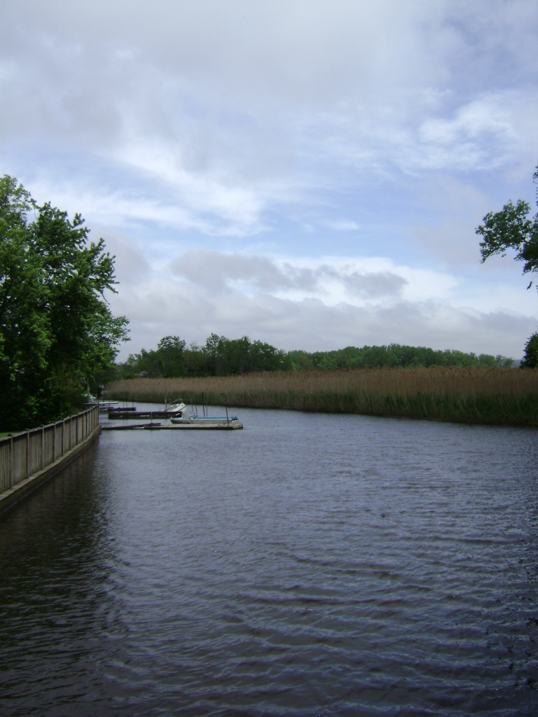 The tidal section of Sparkill Creek is seen from the Ferdon Ave Bridge in Piermont, New York. This particular area of the creek is three quarters of a mile upstream of the mouth.